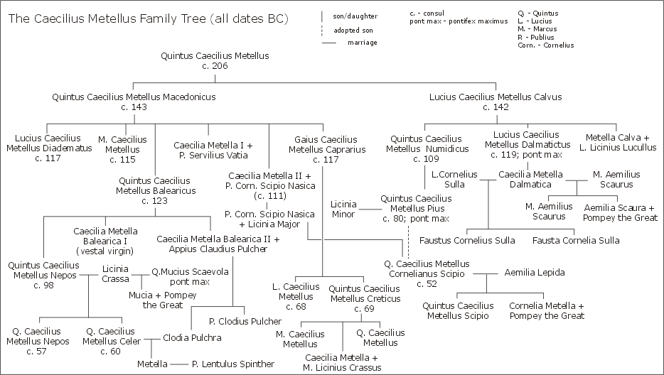 Gens Caecilia Metella family tree.